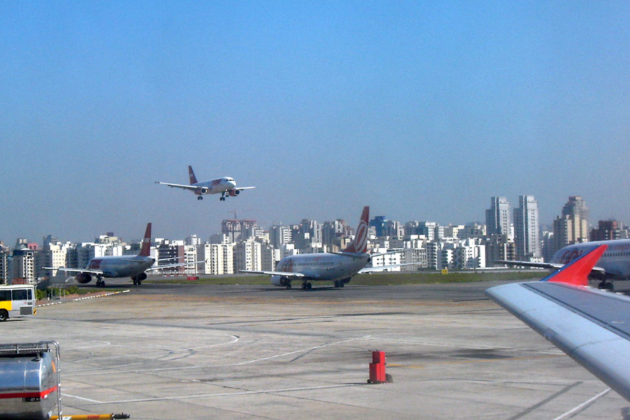 Jetplanes queuing for take off at Congonhas Airport, Sao Paulo, Brazil